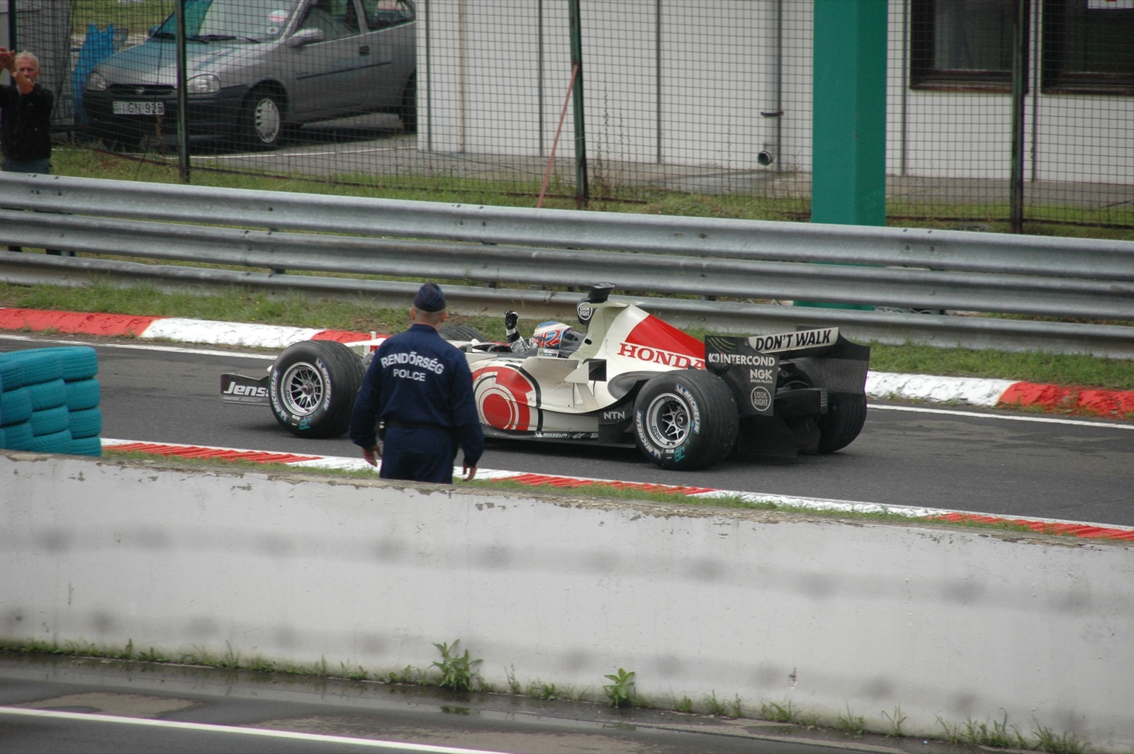 Jenson Button returns to the pit lane after winning the 2006 Hungarian Grand Prix